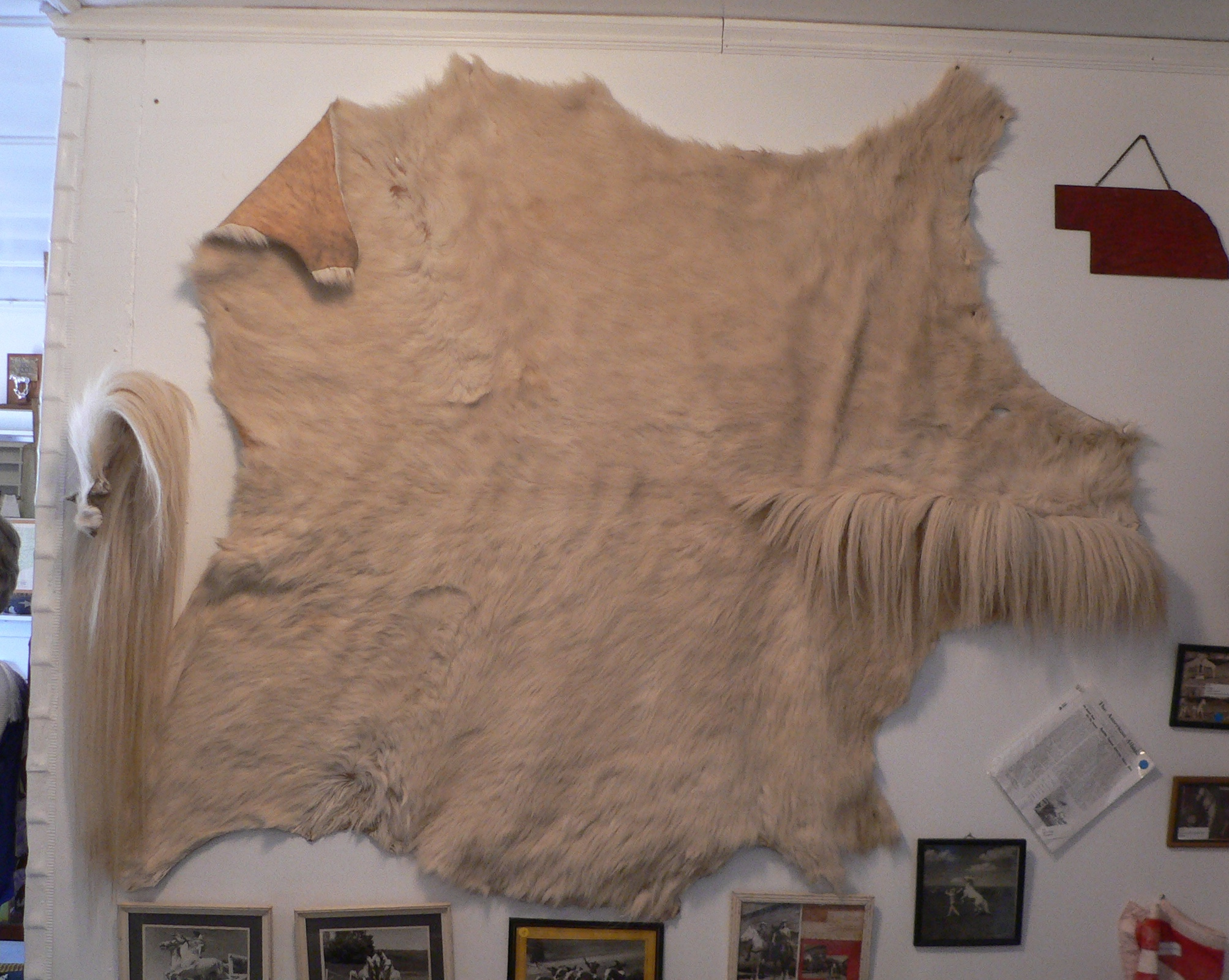 White horse hide and tail, displayed at White Horse Ranch Museum in Naper, Nebraska.